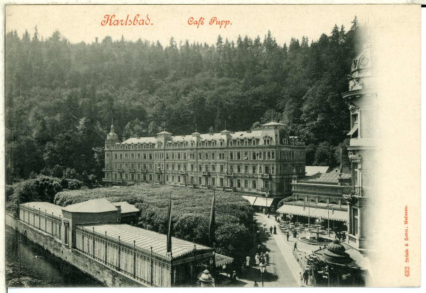 This postcard is from publisher Brück & Sohn in Meißen ( This postcard has a unique number 00632 and is available in a higher resolution at the publisher. This images was uploaded in a cooperation project between Wikipedians and the publisher.